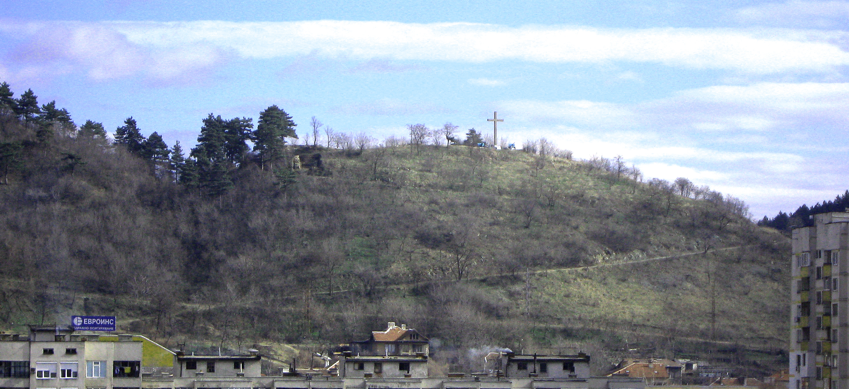 This photo is provided by the Historical Museum in Dupnitsa and is included in the album "Dupnitsa through the centuries" („Дупница през вековете“). Dupnitsa Municipality, Historical Museum - Dupnitsa. ISBN 978-954-8187-89-3.